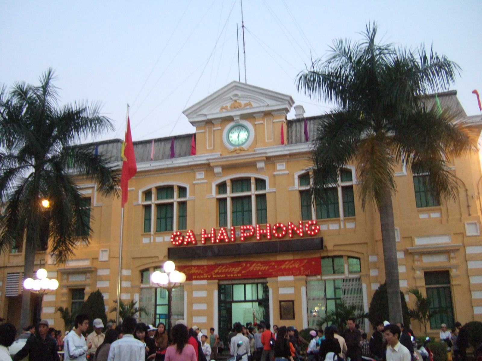 Haiphong station.